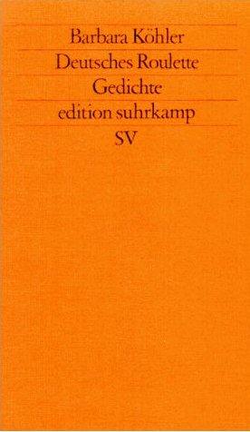 Book Cover of Barbara Köhler "Deutsche Roulette. Gedichte 1984-1989" (1991)